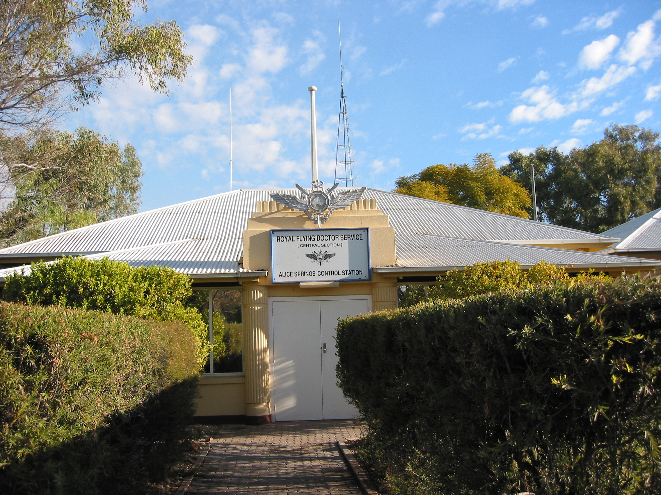 The Flying Doctor Service in Alice Springs, Northern Territory